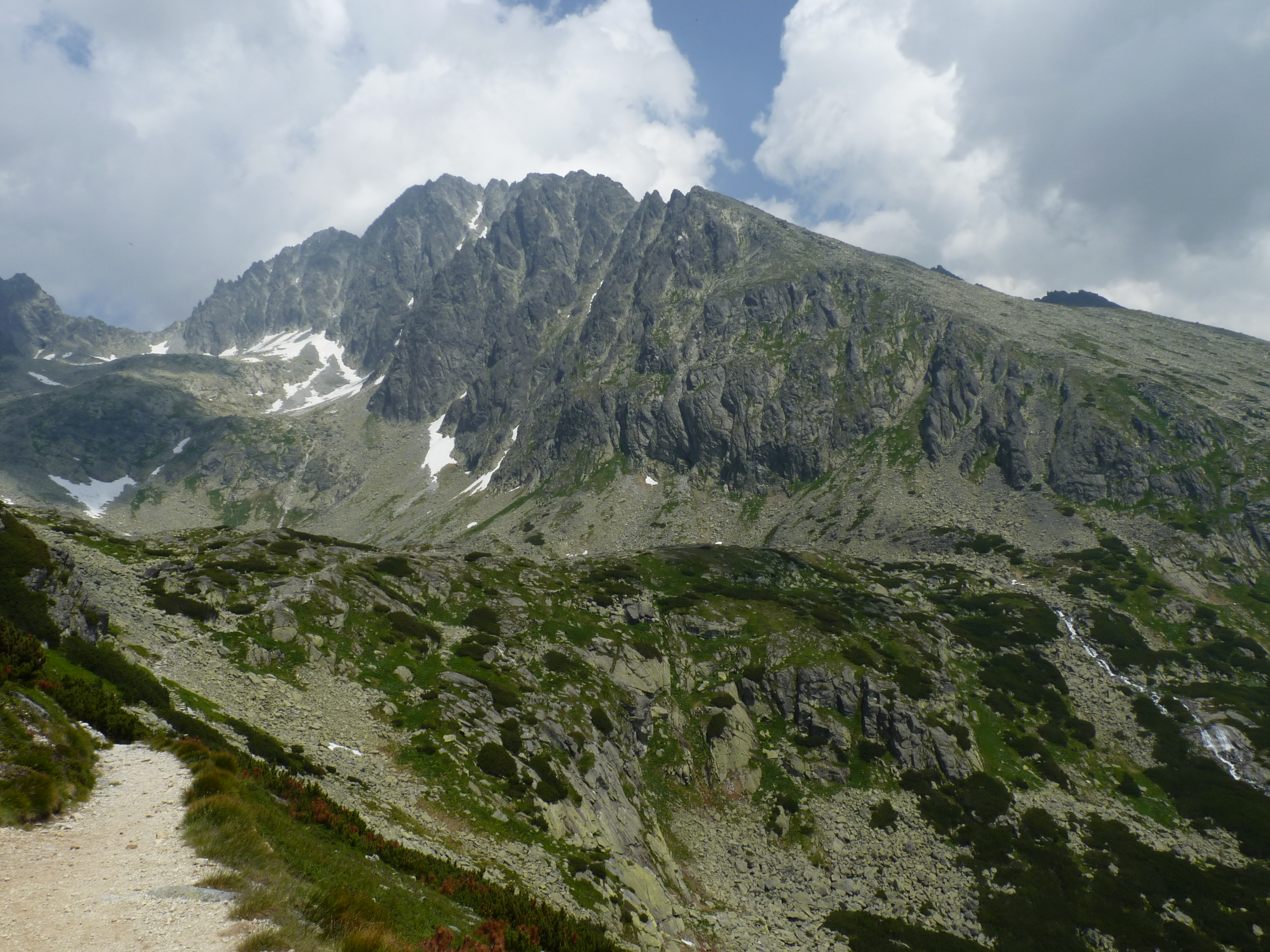 Batizovská dolina (Batizov Valley), High Tatras, Slovakia